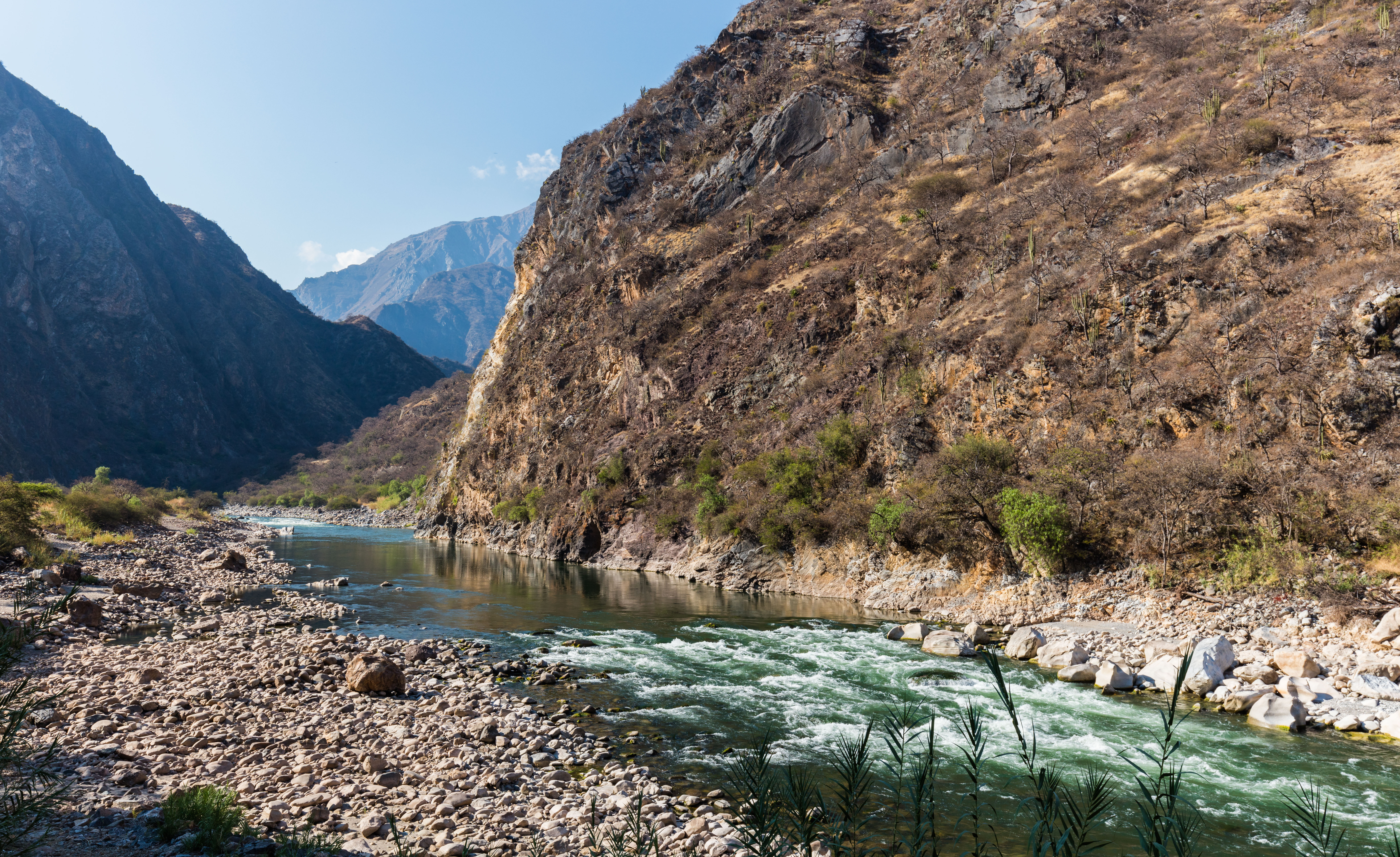 Apurímac River, Cuzco, Peru